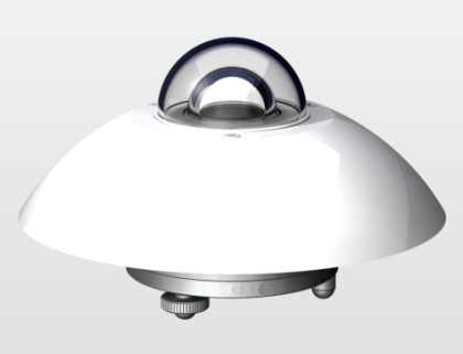 Pyranometer